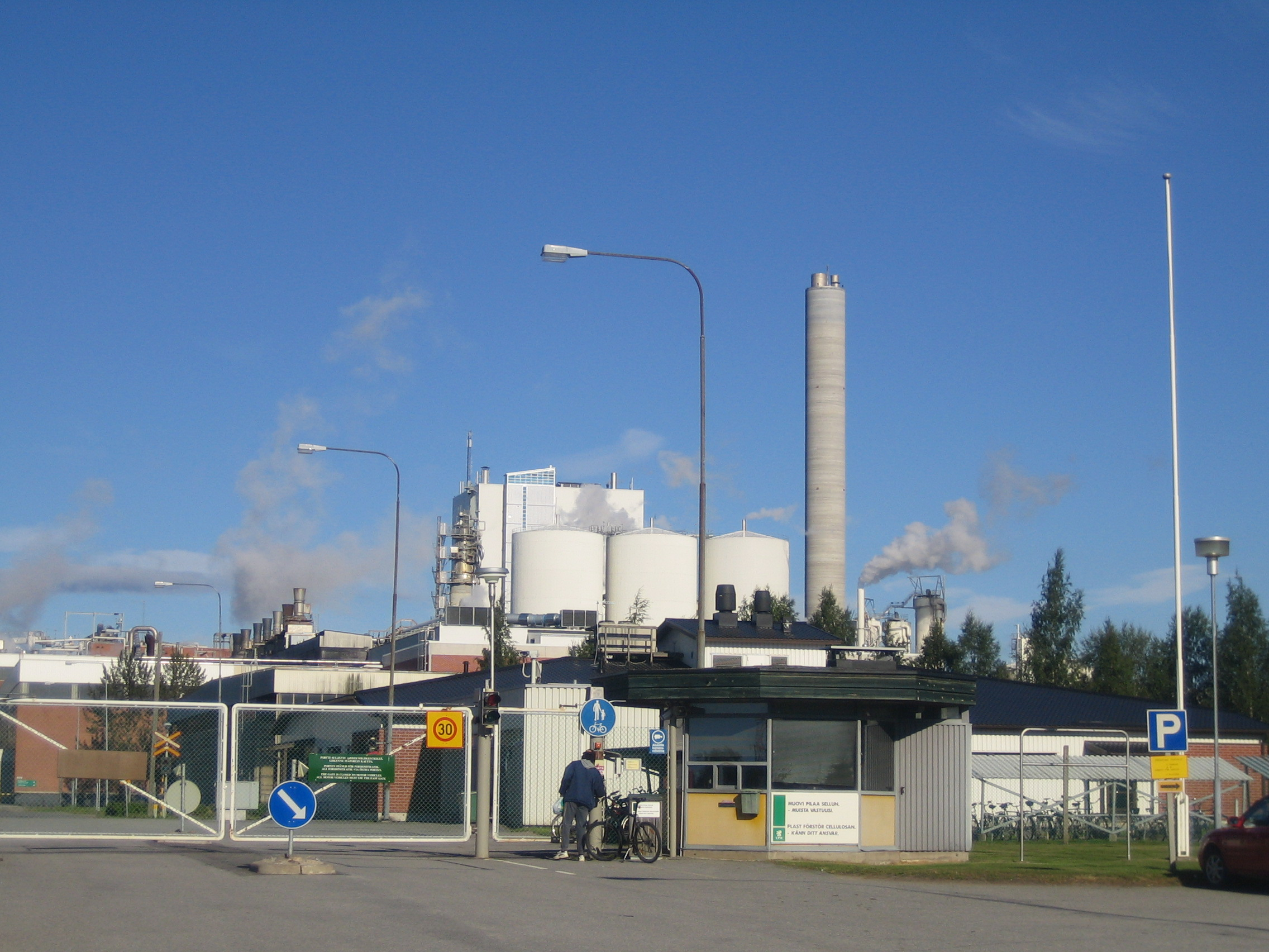 UPM-Kymmene paper and cellulose factory in Jakobstad, Finland.